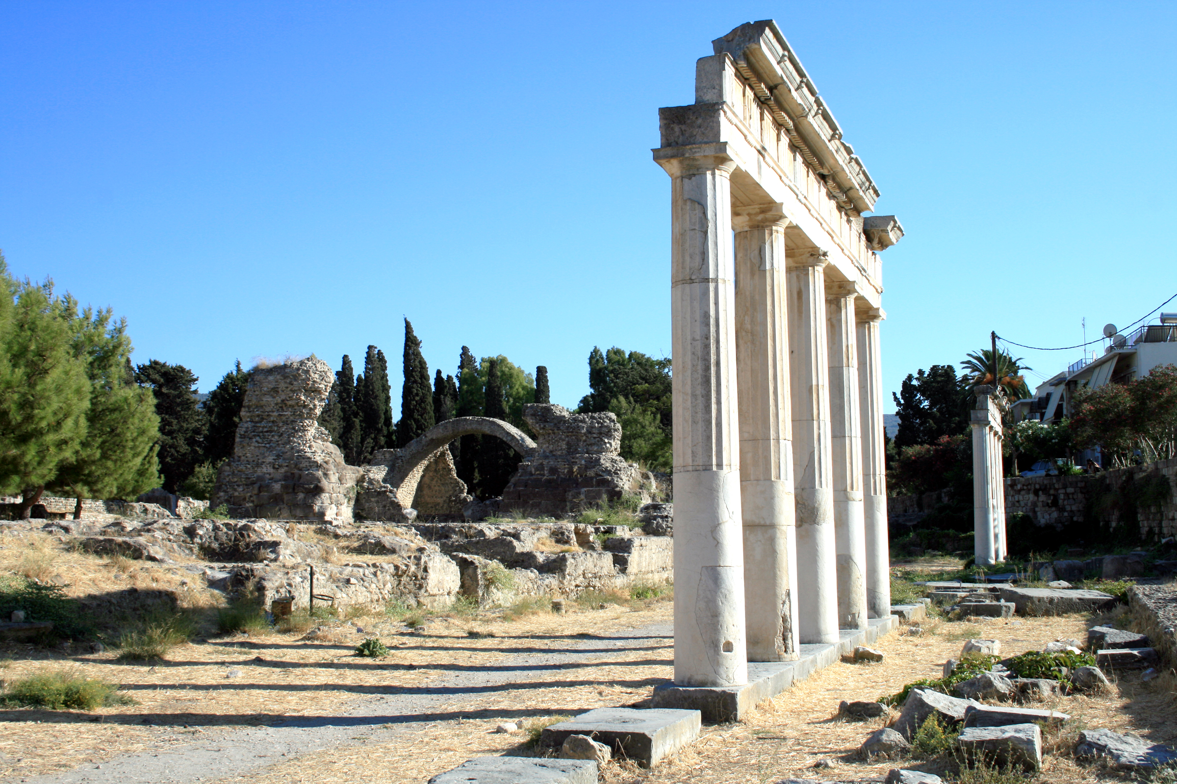 Gymnasion of Kos, archeologic site in Kos city, Kos island (Greece)